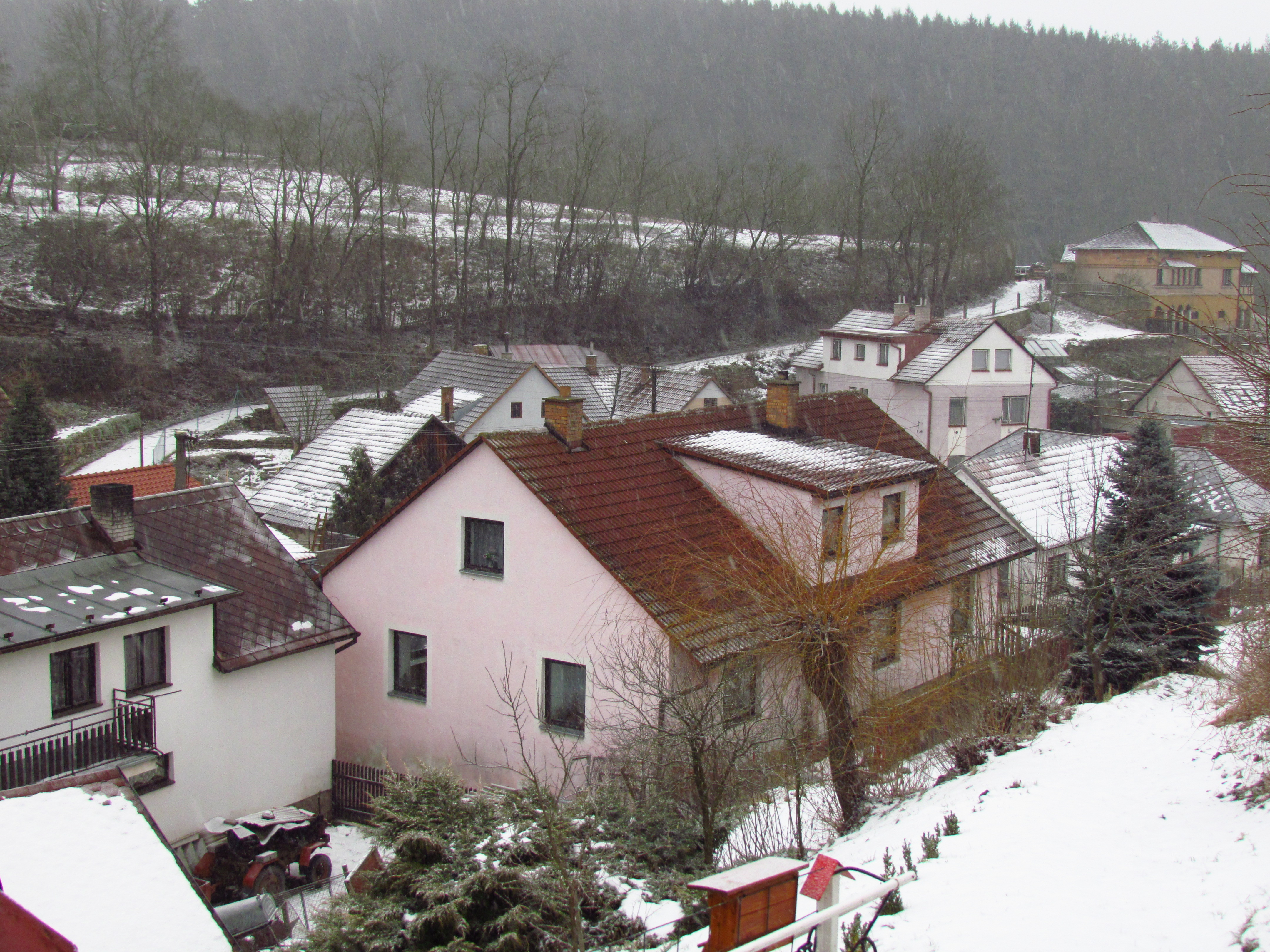 Centre of Dolní Smrčné, Třebíč District.